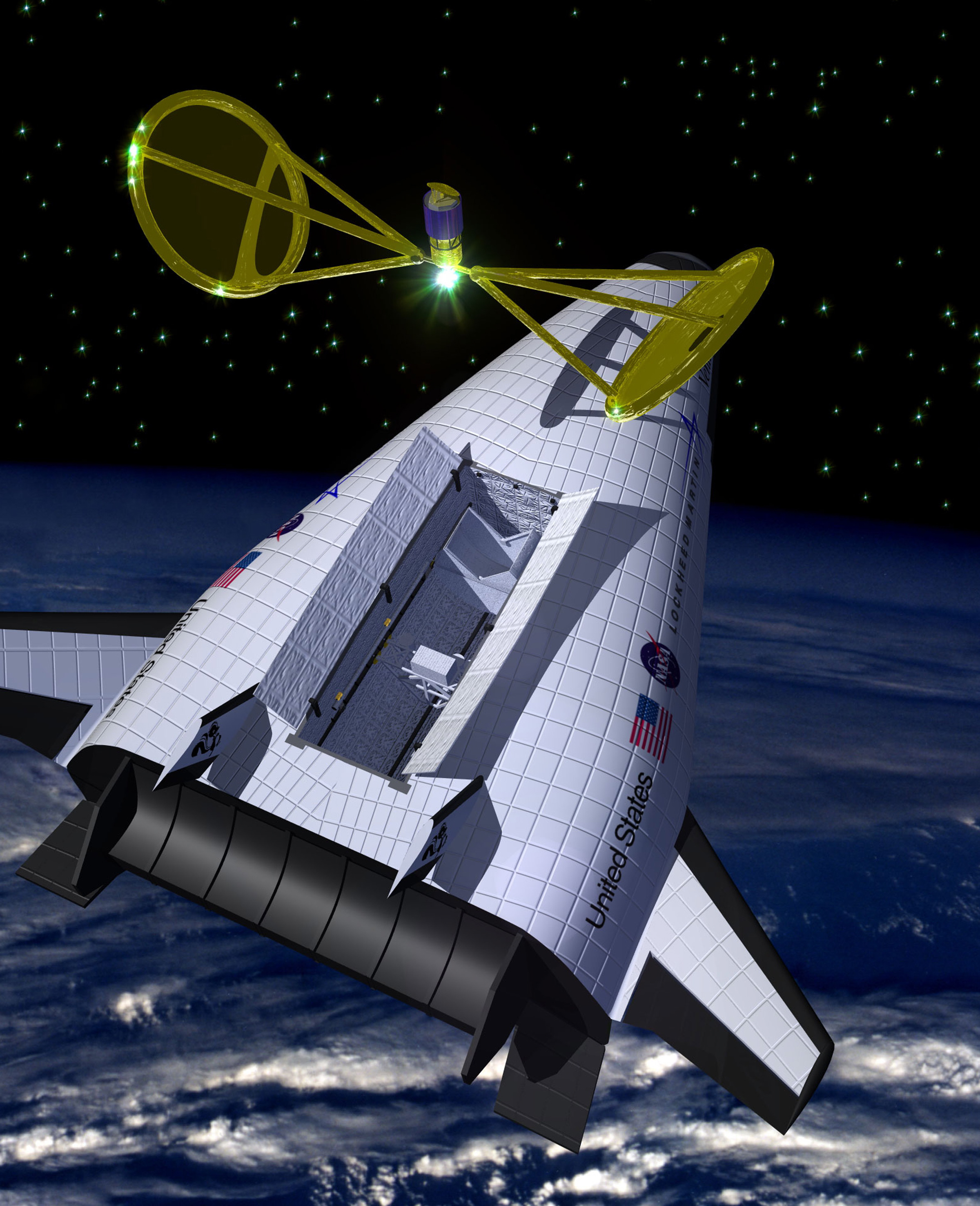 This is an artist's conception of the NASA/Lockheed Martin Single-Stage-To-Orbit (SSTO) Reusable Launch Vehicle (RLV) releasing a satellite into orbit around the Earth. The X-33 was intended to be a technology demonstrator vehicle for the RLV.